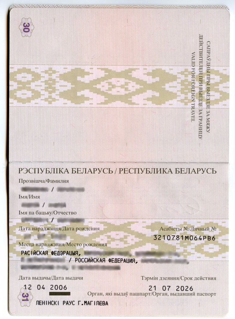 Pages 30-31 of Belarusian passport scanned by me.